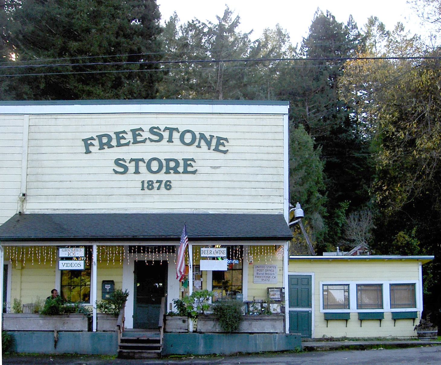 Photograph of the Freestone Store in Freestone, taken by Stephen Gold on December 7, 2007. Rotated, cropped, and levelled with Adobe Photoshop Elements.